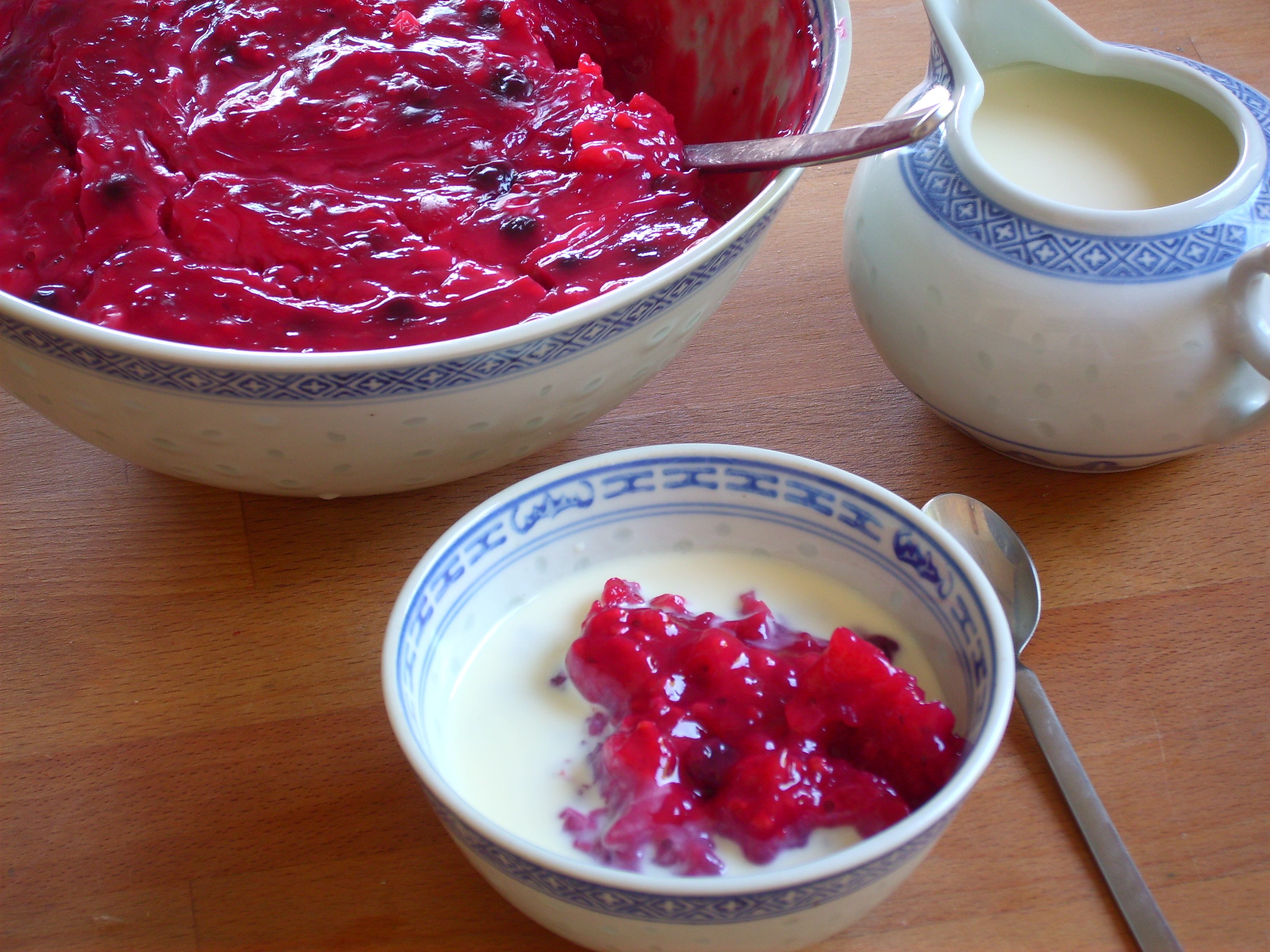 Rote Grütze, red groat or red gruel, a dish from Schleswig-Holstein and Denmark - basically a pudding of red summer berries.